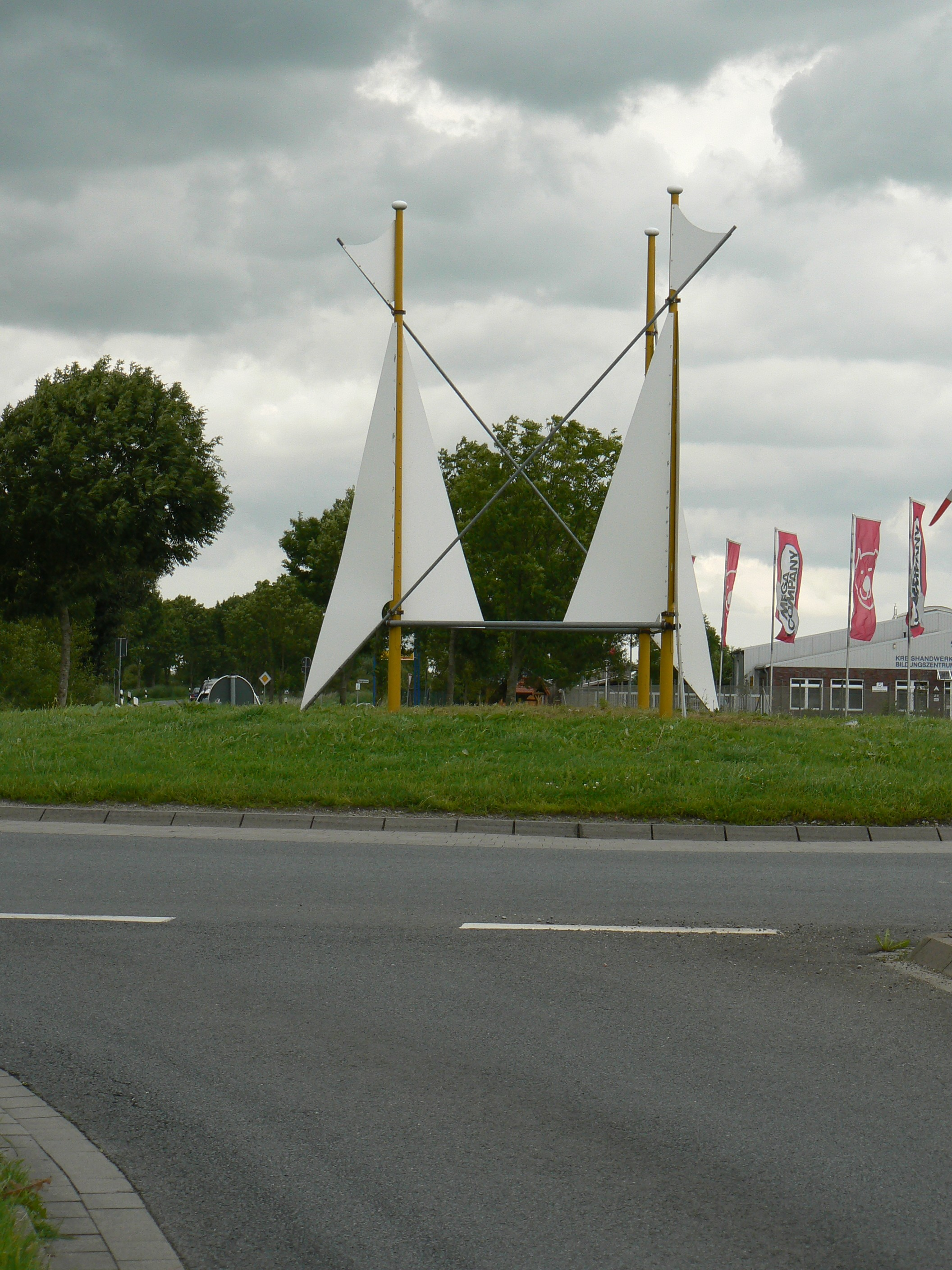 sculpture by Wilhelm Müller in Wittmund/Germany